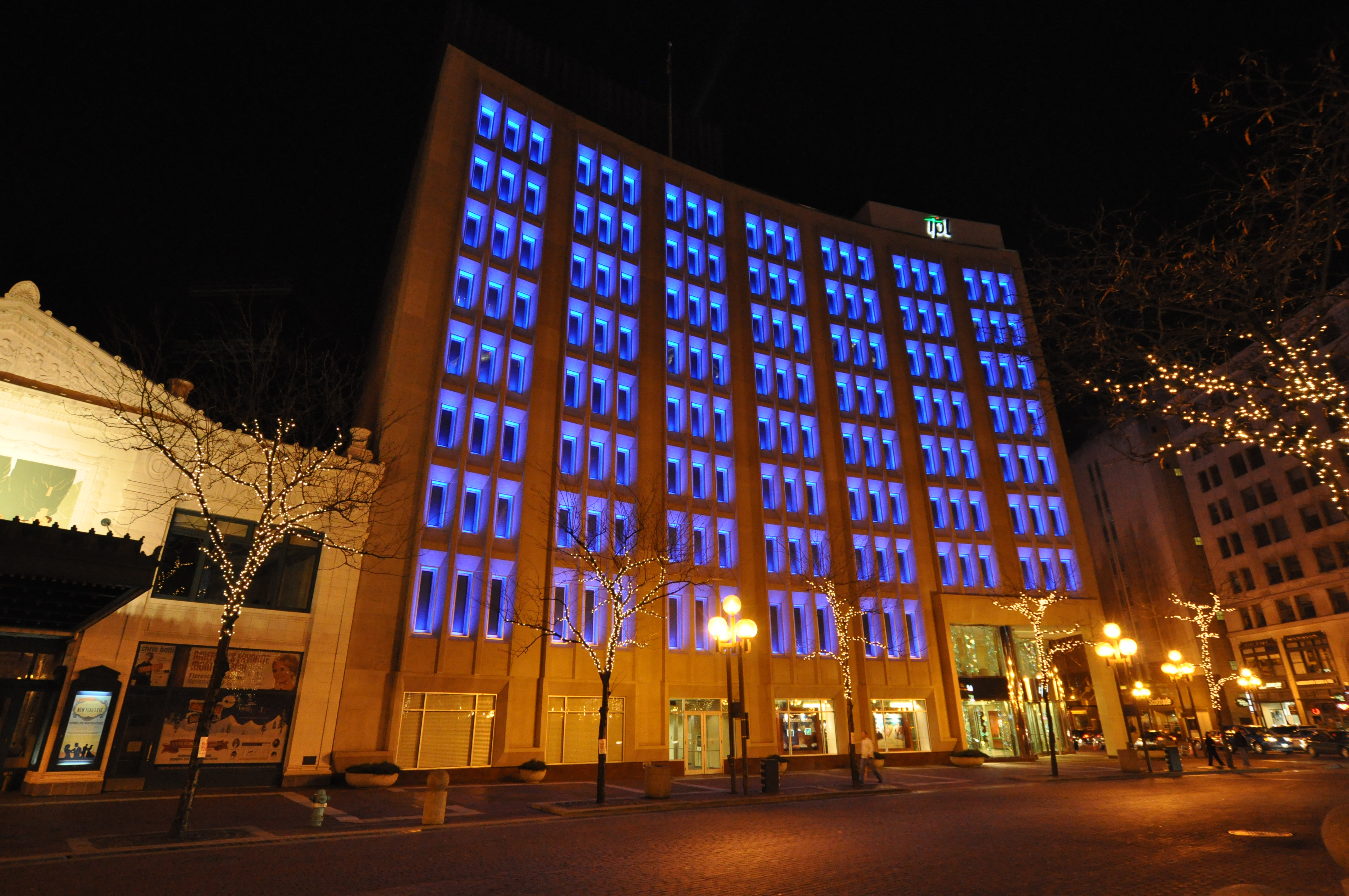 The Indianapolis Power & Light headquarters illuminated on Monument Circle, Indianapolis, Indiana, USA in 2009.